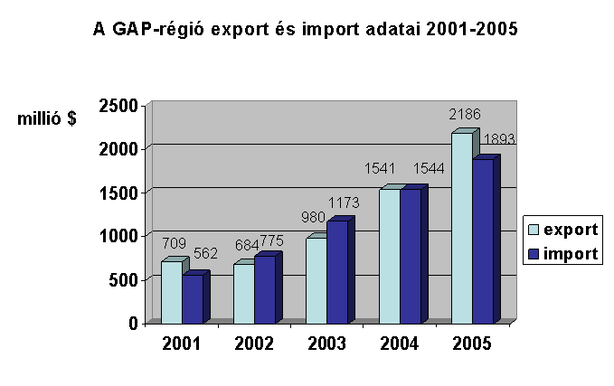 A Délkelet-anatóliai projekt (GAP) régiójának export és import adatai 2001-2005 között, a Hivatalos honlap riportja alapján.